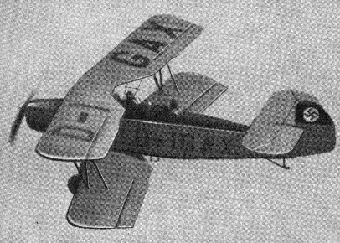 Arado Ar.66 photo from Le Pontentiel Aérien Mondial 1936